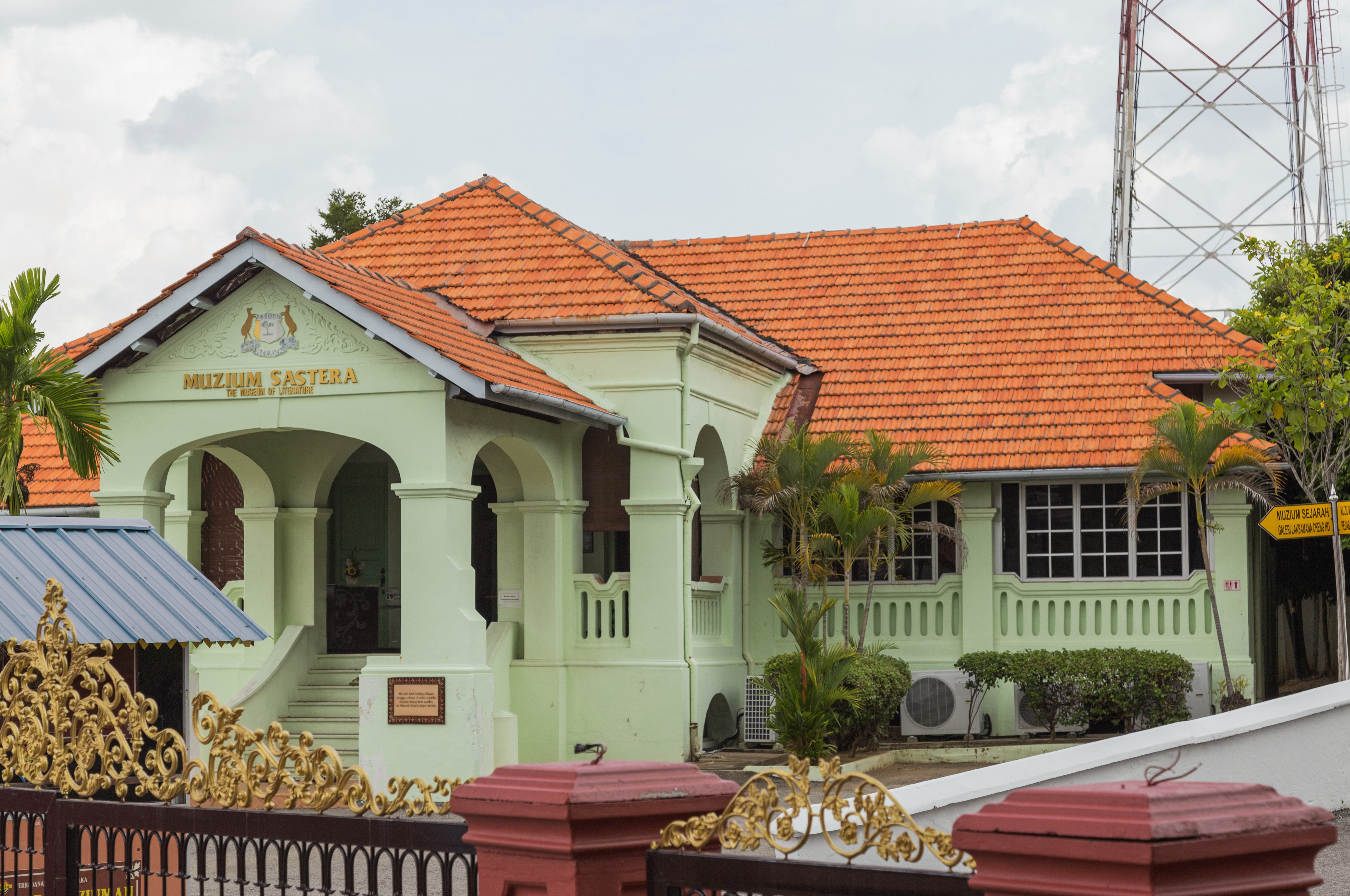 Malacca Literature Museum. Malacca City, Malacca, Malaysia.